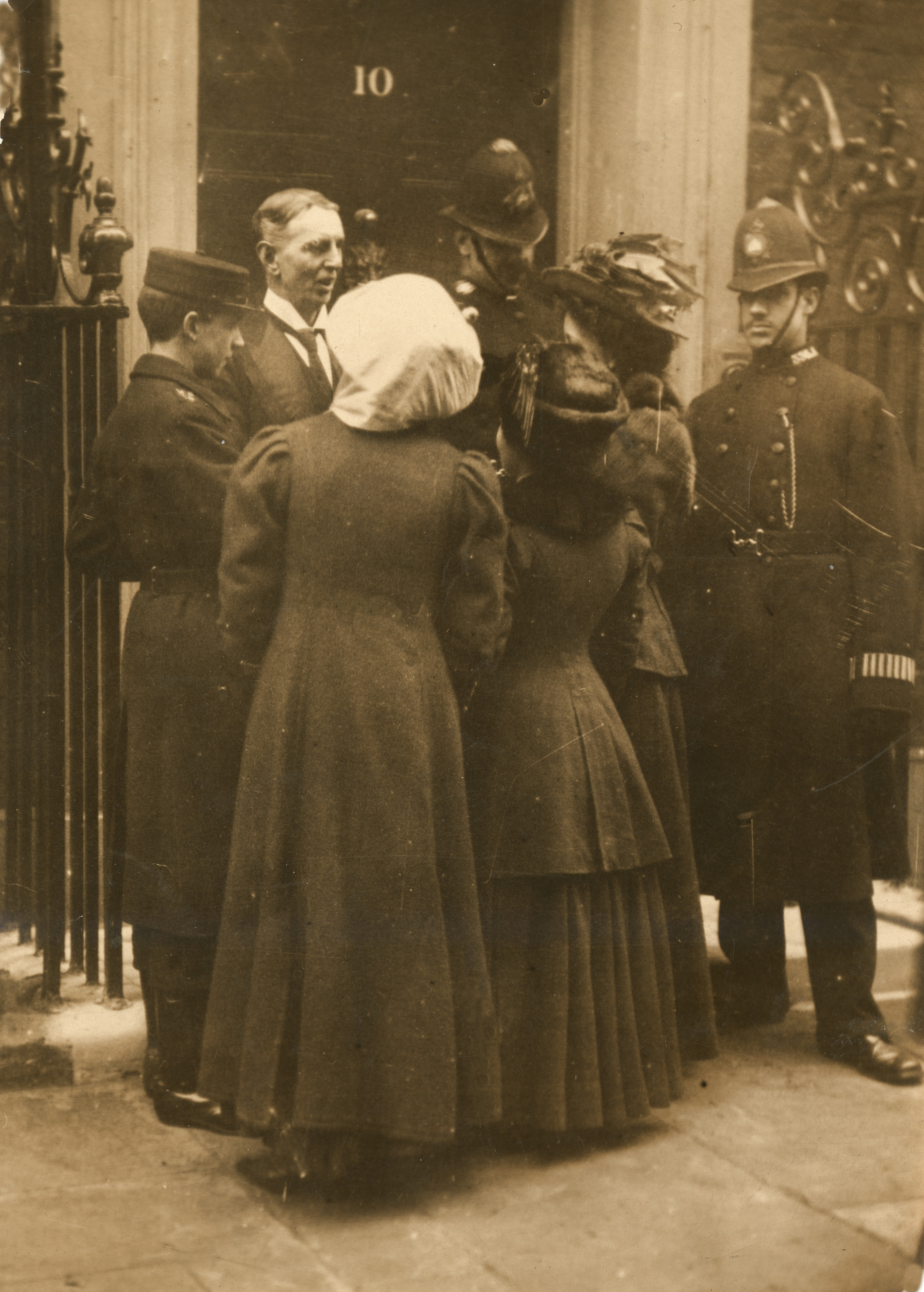 7JCC/O/02/008 Photograph, printed, paper, monochrome, suffragettes Daisy Solomon and Elspeth McClellan with a post boy, police and an official outside no.10 Downing Street, attempting to get themselves delivered as letters; printed inscription on reverse 'Copyright: World's Graphic Press Limited, 36-38 Whitefriars Street, Fleet Street, London. Please Acknowledge'